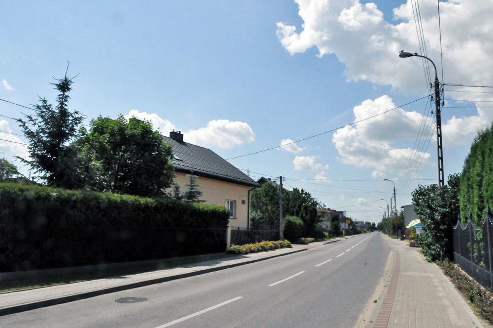 Main street in the village